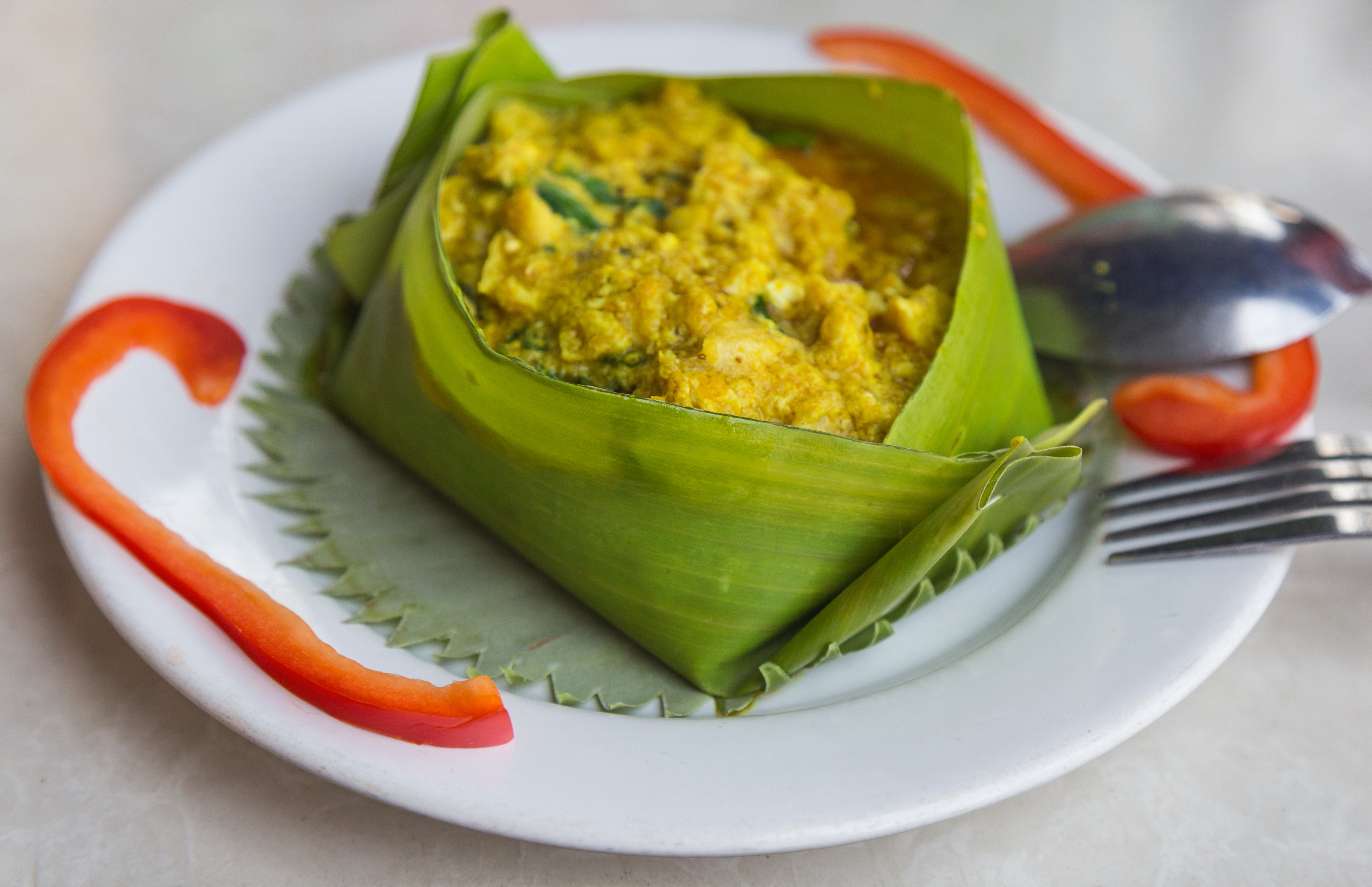 Amok trey - traditional dish of Cambodian cuisine. Phnom Penh, Cambodia.